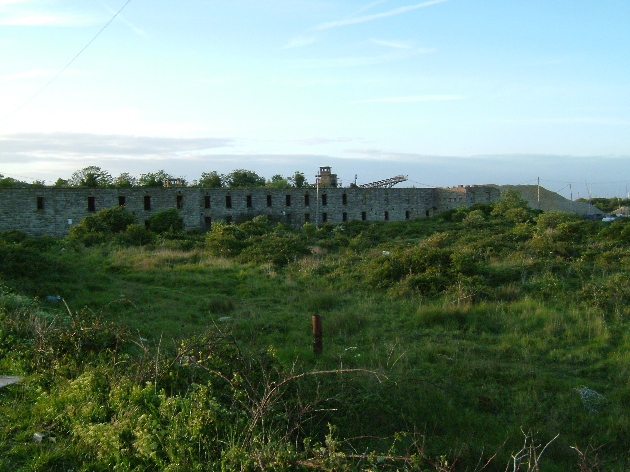 Cliffe Fort is a Royal Commission Fort built TQ 708767 as part of the defences of Chatham Dockyard. It is on the Thames Estuary, on The Lower Hope. Behind it are the Cliffe Pools, which are still used for mineral extraction.